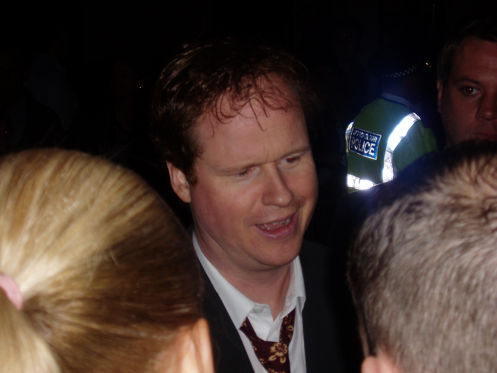 Joss Whedon at the premiere of Serenity